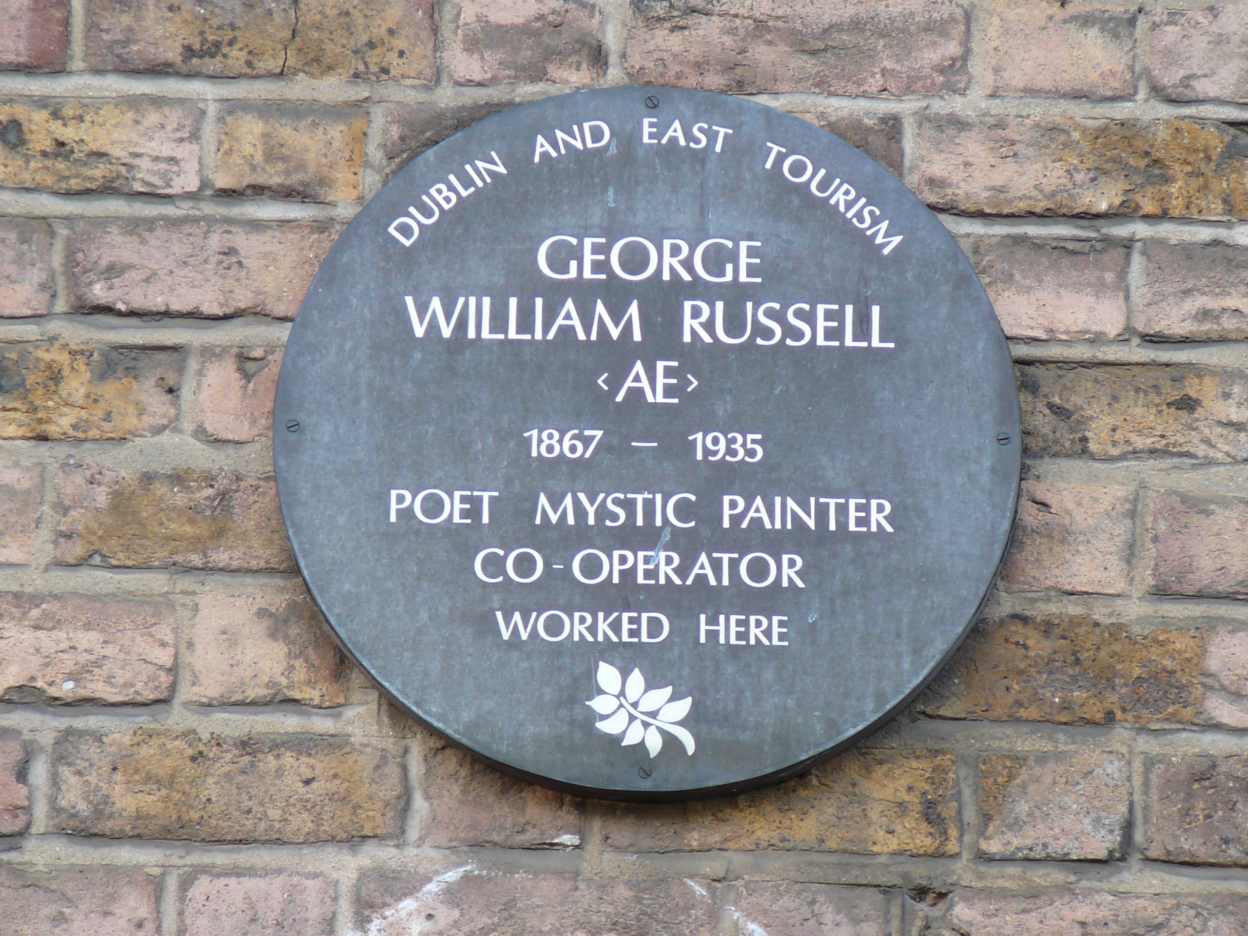 Image of George William Russell plaque on the wall of Plunkett House at 84 Merrion Square, Dublin, Ireland, where he once worked.